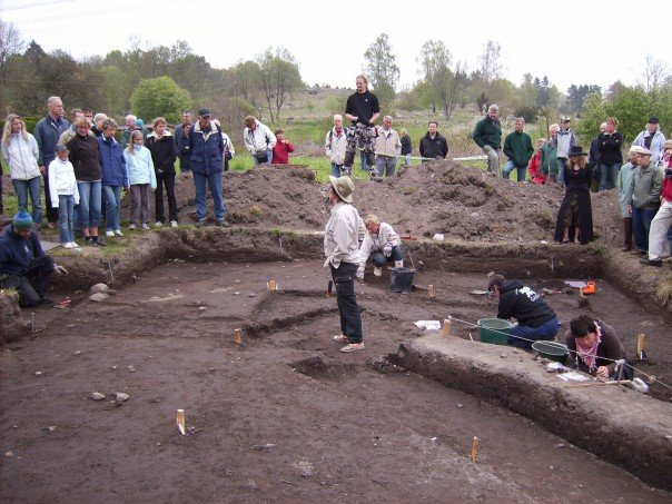 A archeological excavation in Ytterby, Sweden.